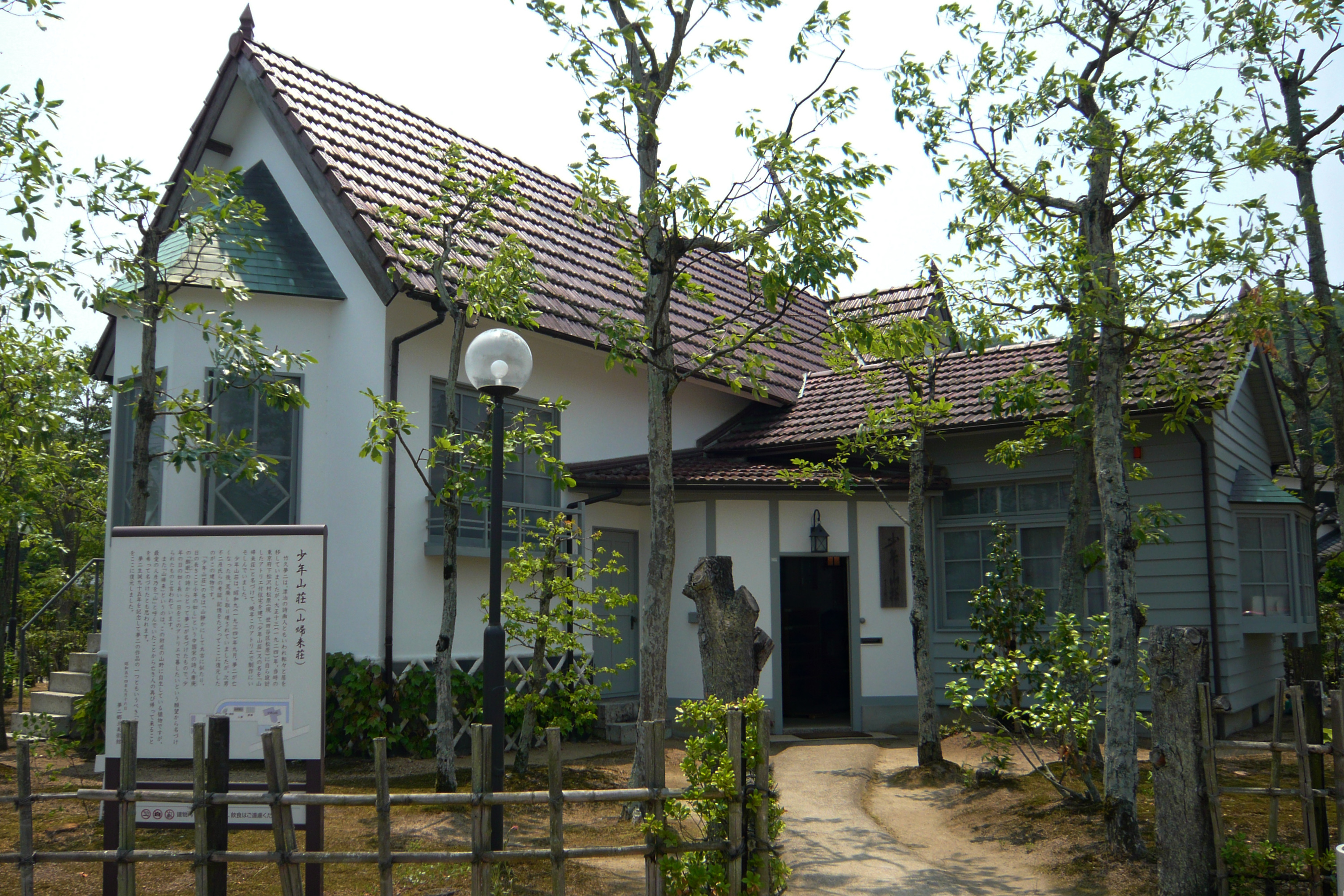 Shonen-sanso_of_Takehisa_Yumeji (竹久夢二の少年山荘), Setouchi, Okayama prefecture, Japan